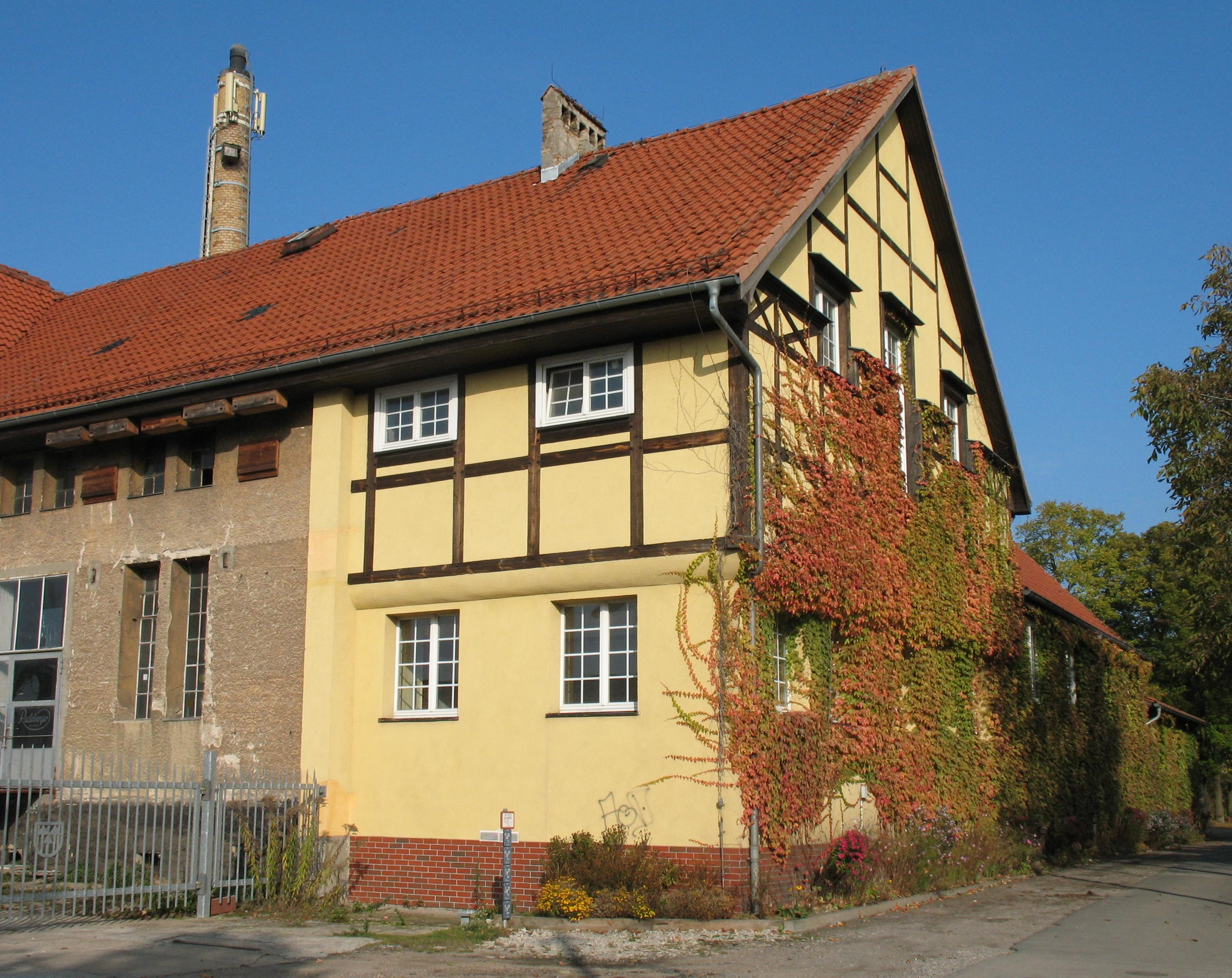 Former factory in Oranienburg in Brandenburg, Germany